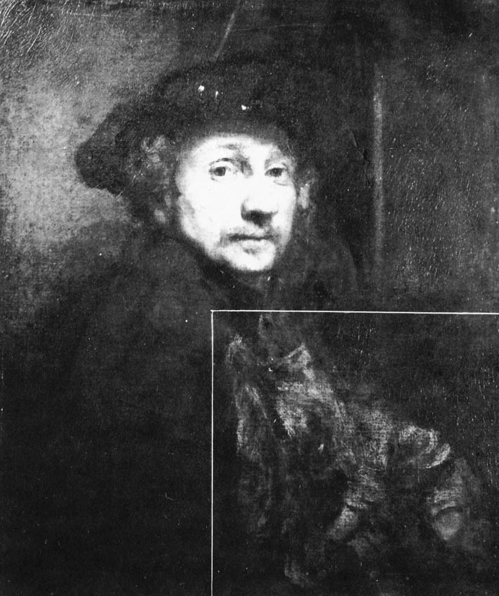 fake self-portrait of Rembrandt